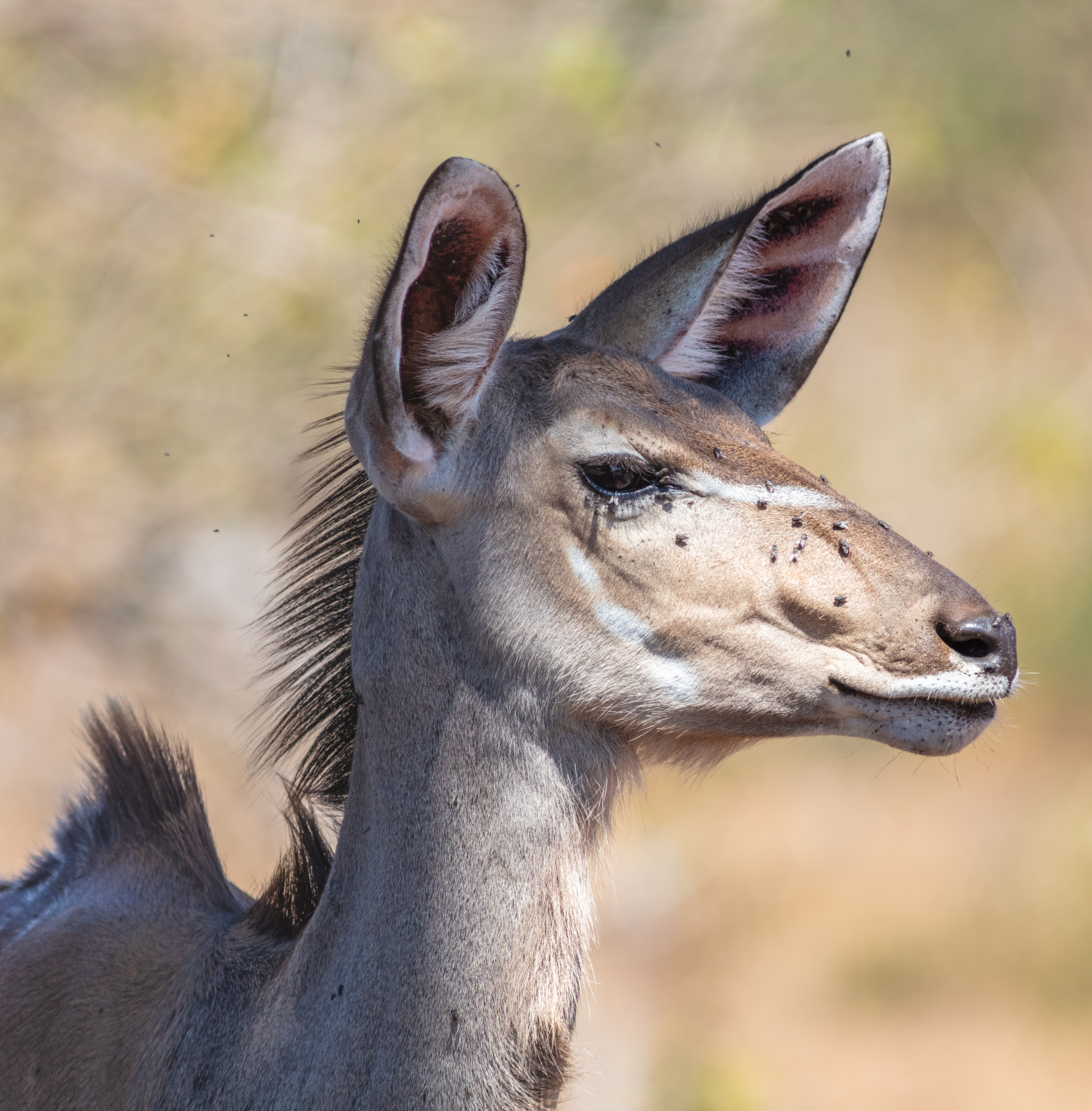 Greater kudu (Tragelaphus strepsiceros), Chobe National Park, Botswana